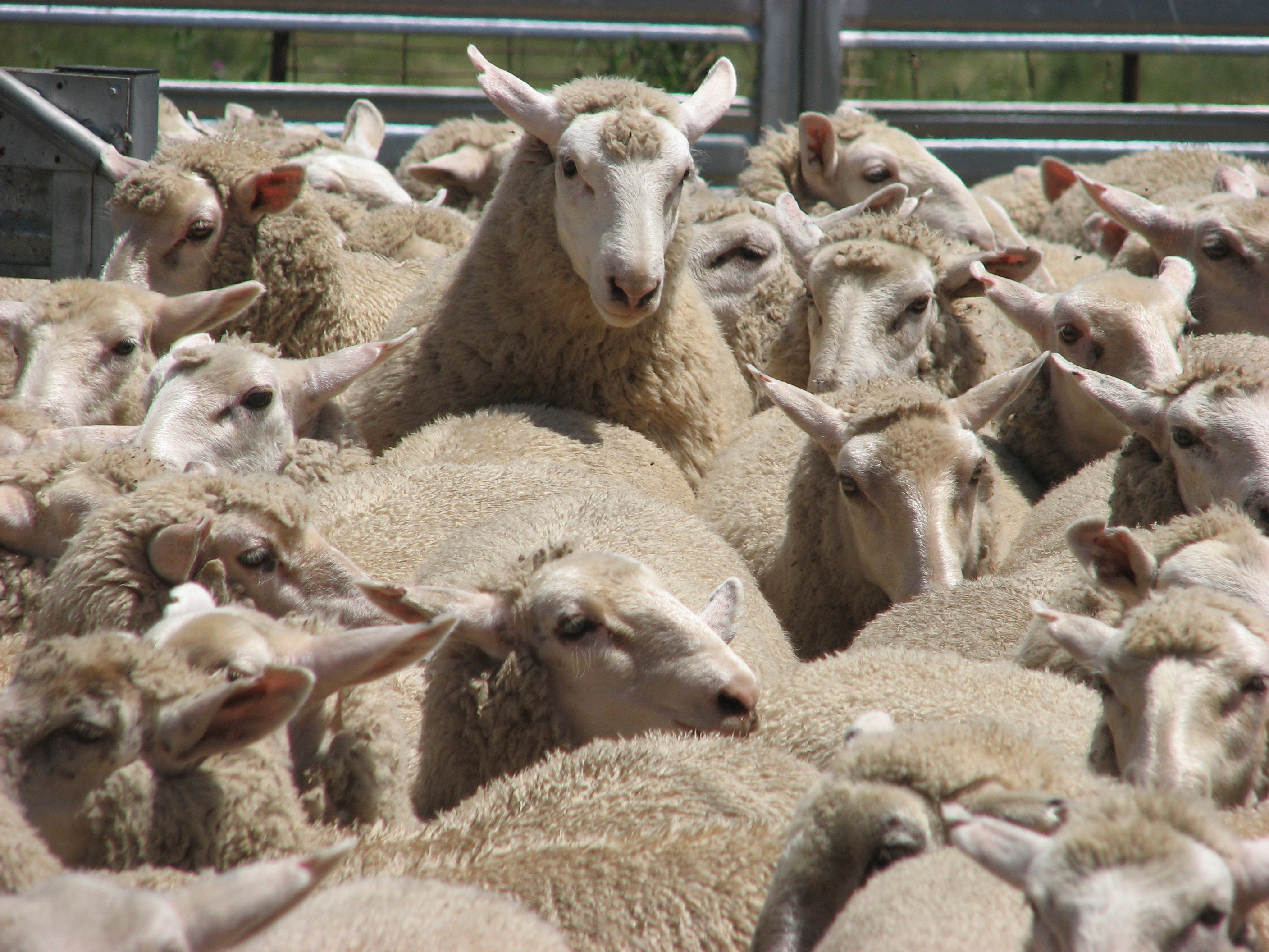 Sheep being mustered for sale in Australia.